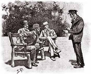 Sherlock Holmes in "The Adventure of the Gloria Scott", which appeared in The Strand Magazine in April, 1893. Original caption was "'HUDSON IT IS, SIR,' SAID THE SEAMAN."